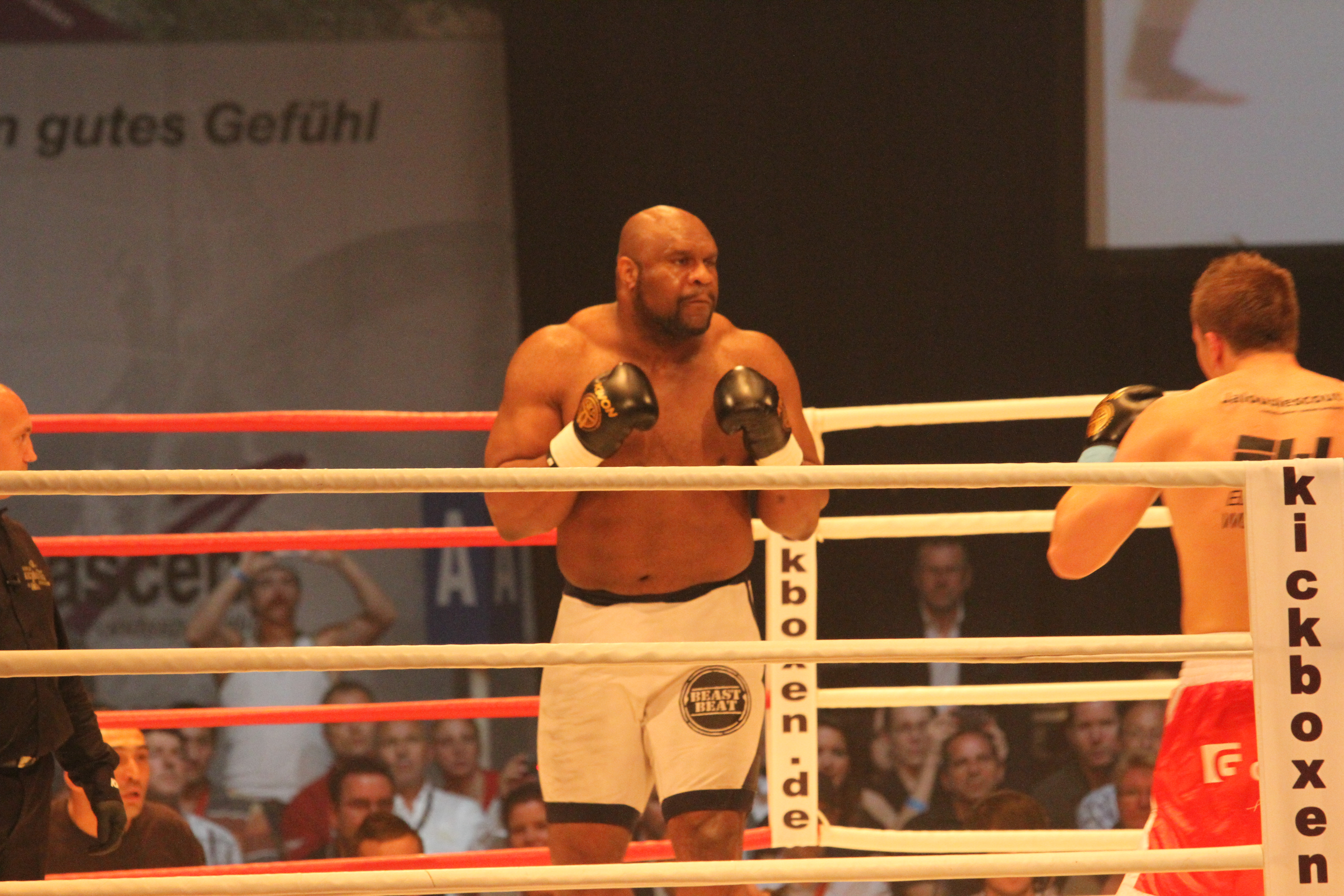 Bob Sapp at the WKA World Championship 2011 in Karlsruhe Germany